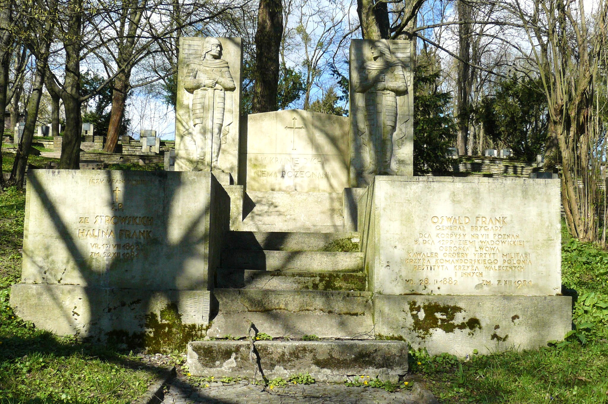 Oswald Frank Tomb, Poznan.